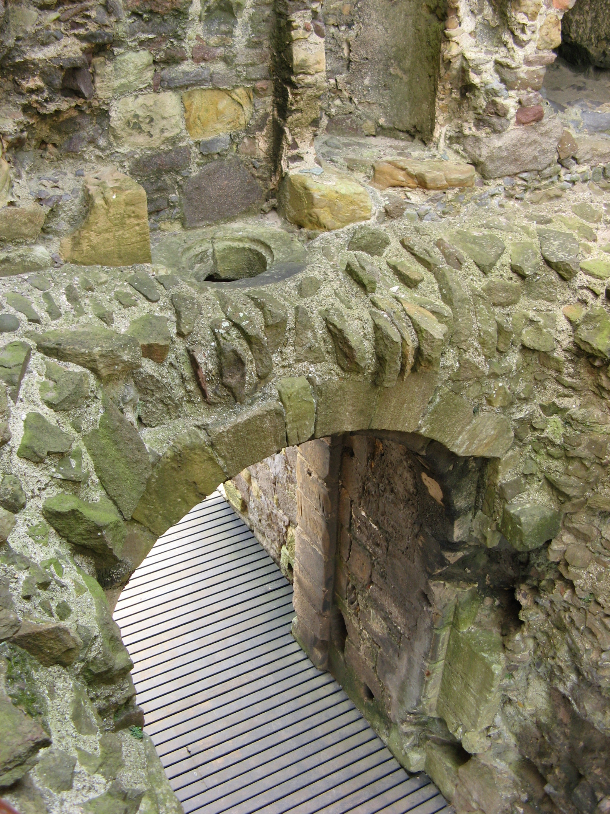 Dirleton Castle, East Lothian, Scotland. "Murder hole" above the main gate.